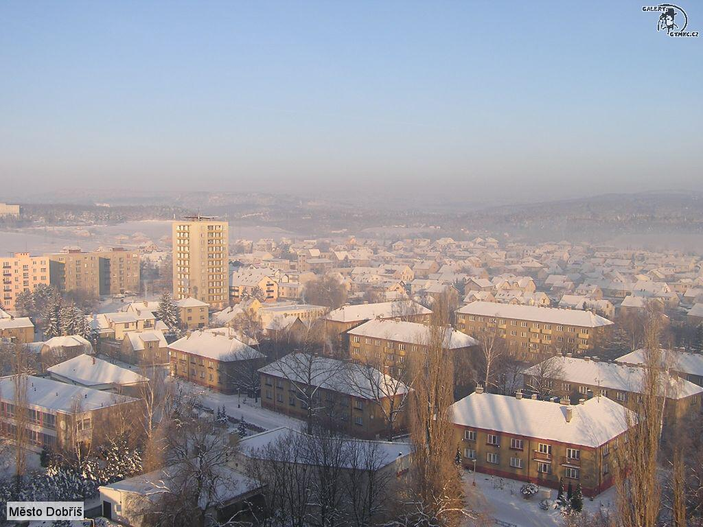 Town Dobříš (CZE) in winter 2004